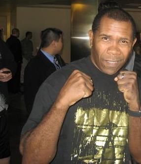 Howard Davis Jr trained Chuck Liddell in 2009